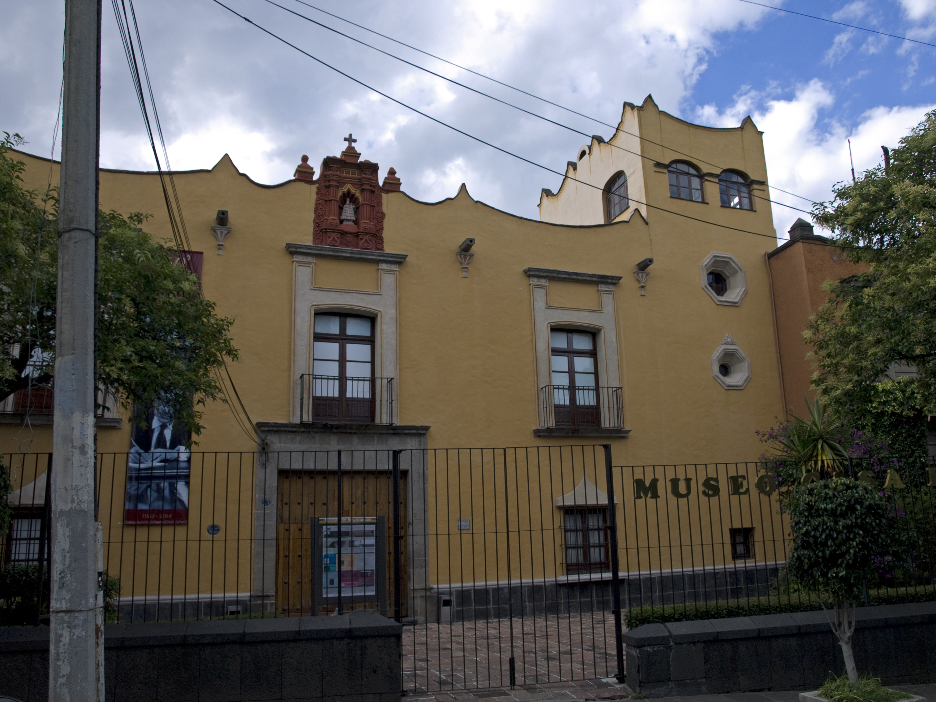 Casa del Risco, Plaza de San Jacinto 5 or 15, San Ángel